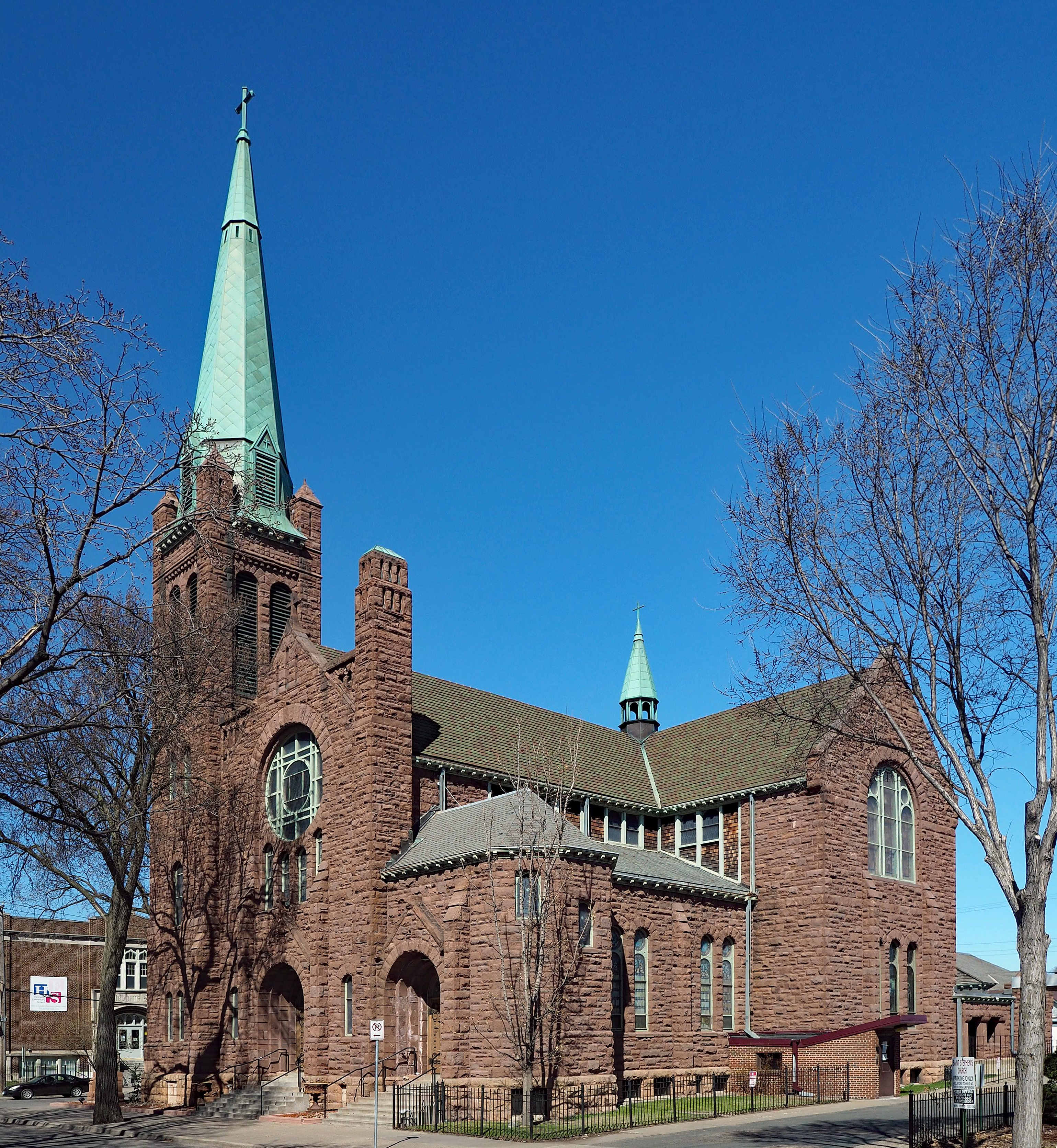 Church of St Stephen, 2201 Clinton Ave S, Minneapolis, Minnesota, USA. Viewed from the southwest.